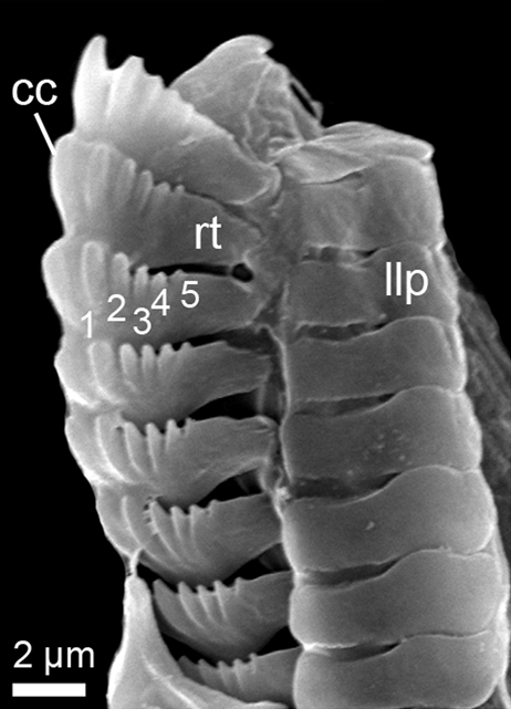 SEM image of radula of Pontohedyle verrucosa. cc = central cusp of rachidian tooth, rt = rachidian tooth, llp = left lateral plate, numbers mark lateral cusps of rachidian tooth.